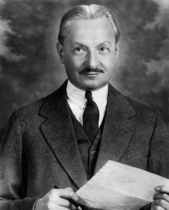 Photograph of Florenz Ziegfeld from the cover of Time magazine, Volume 11 Issue 20. Time failed to renew the copyrights of many early issues; see wikisource:Time (magazine).